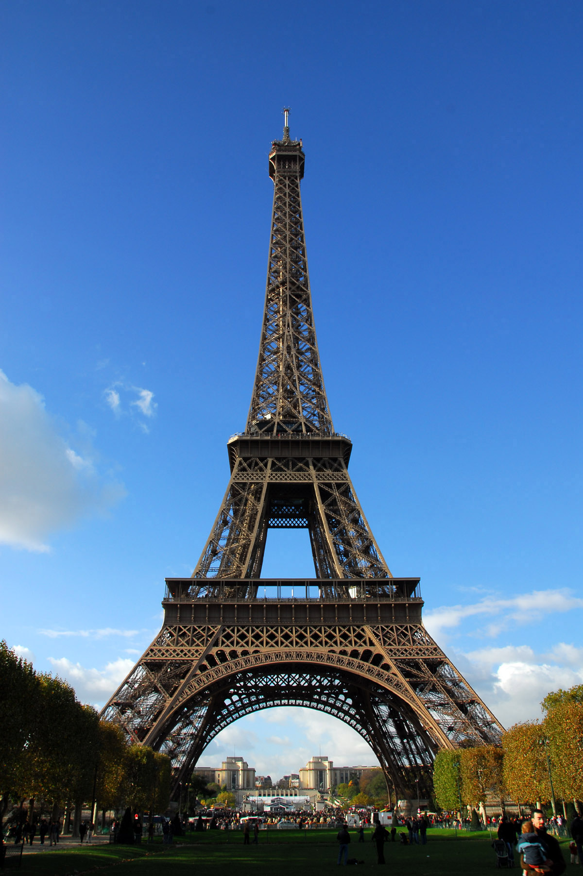 Tour Eiffel, photo taken from the ground of Champ de Mars.